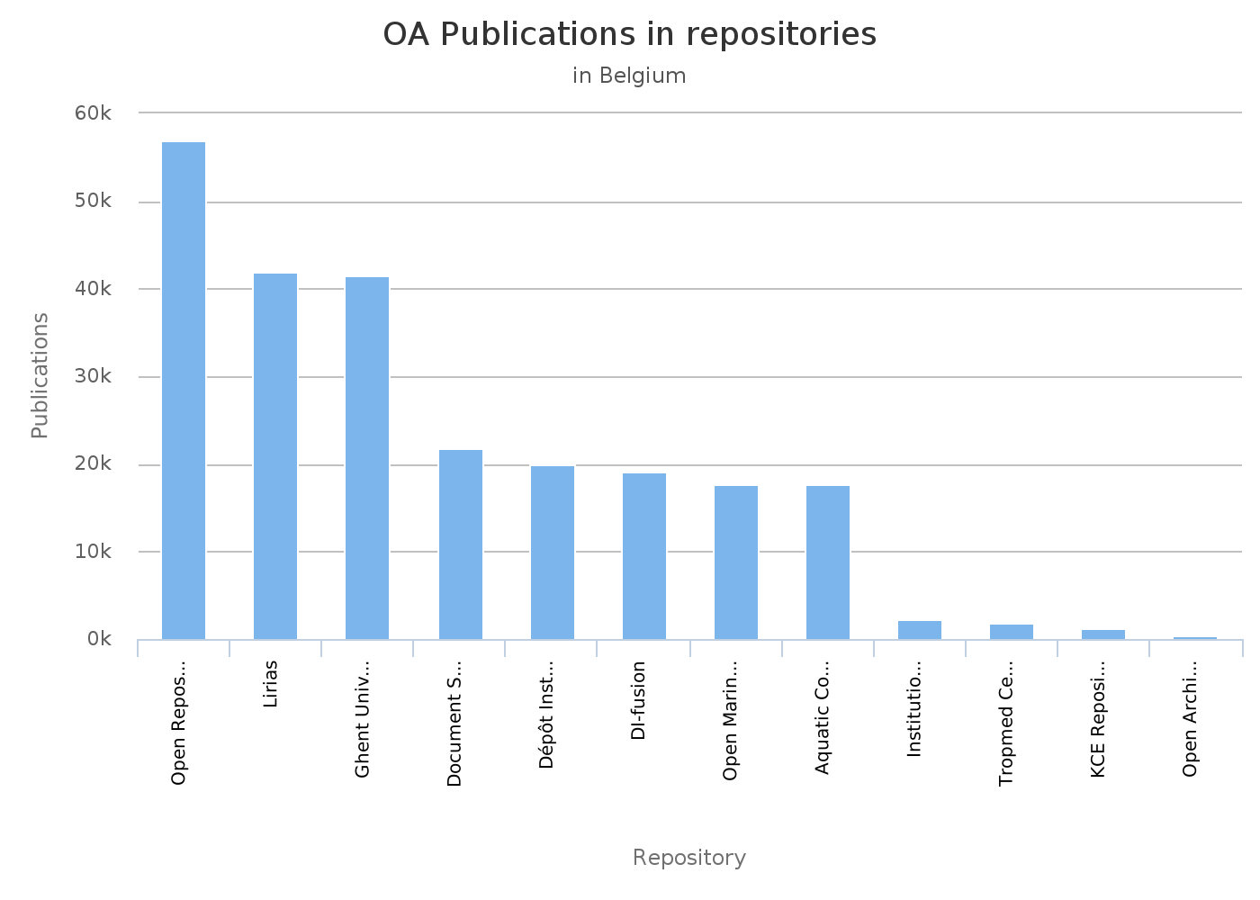 Bar graph describing open access to scholarly communication in Belgium